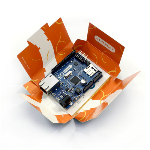 Arduino Ethernet board in original package